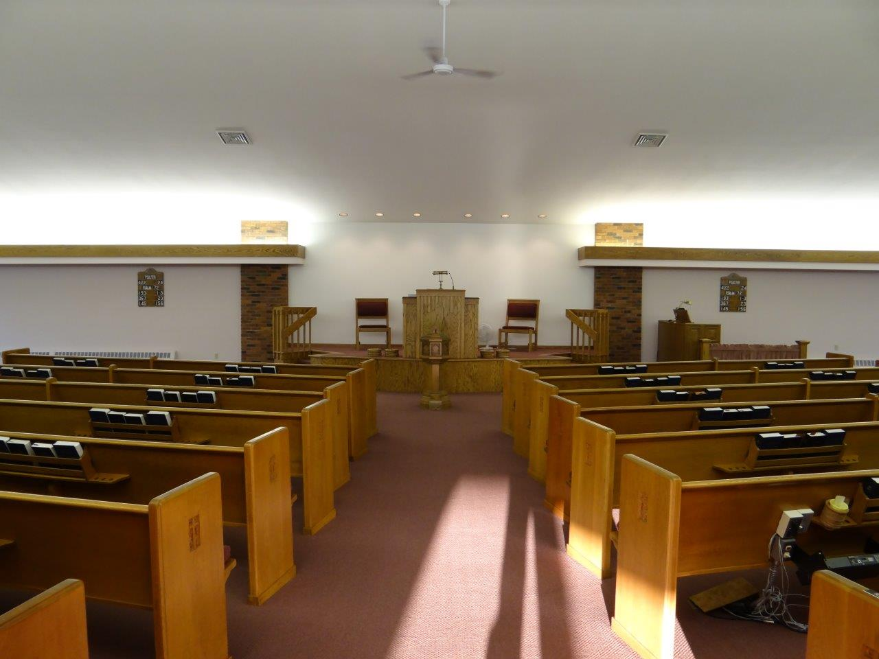 Netherlands Reformed Congragation Sheboygan Wisconsin